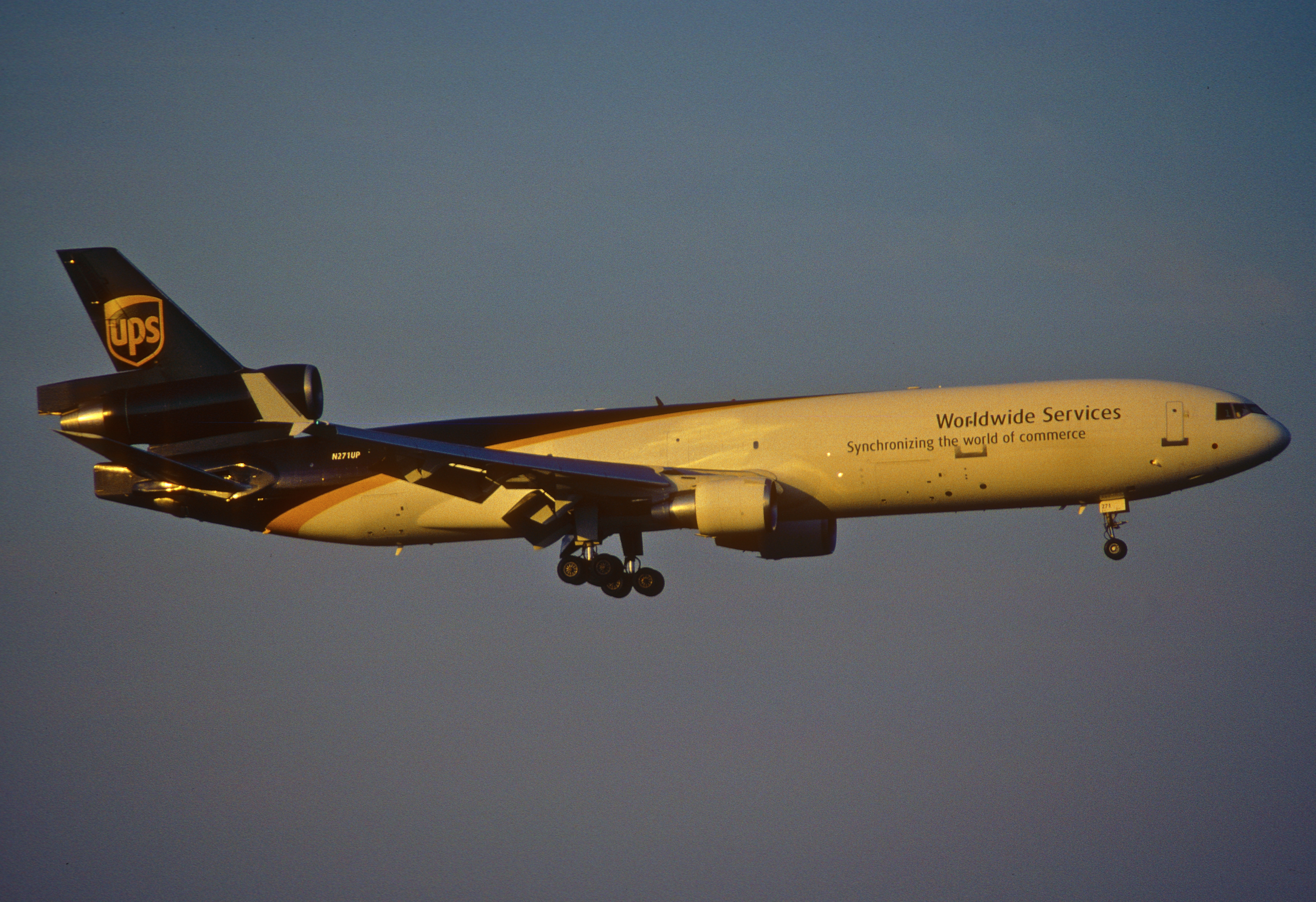 A side view of a UPS Airlines MD-11F at the Cologne-Bonn Airport.